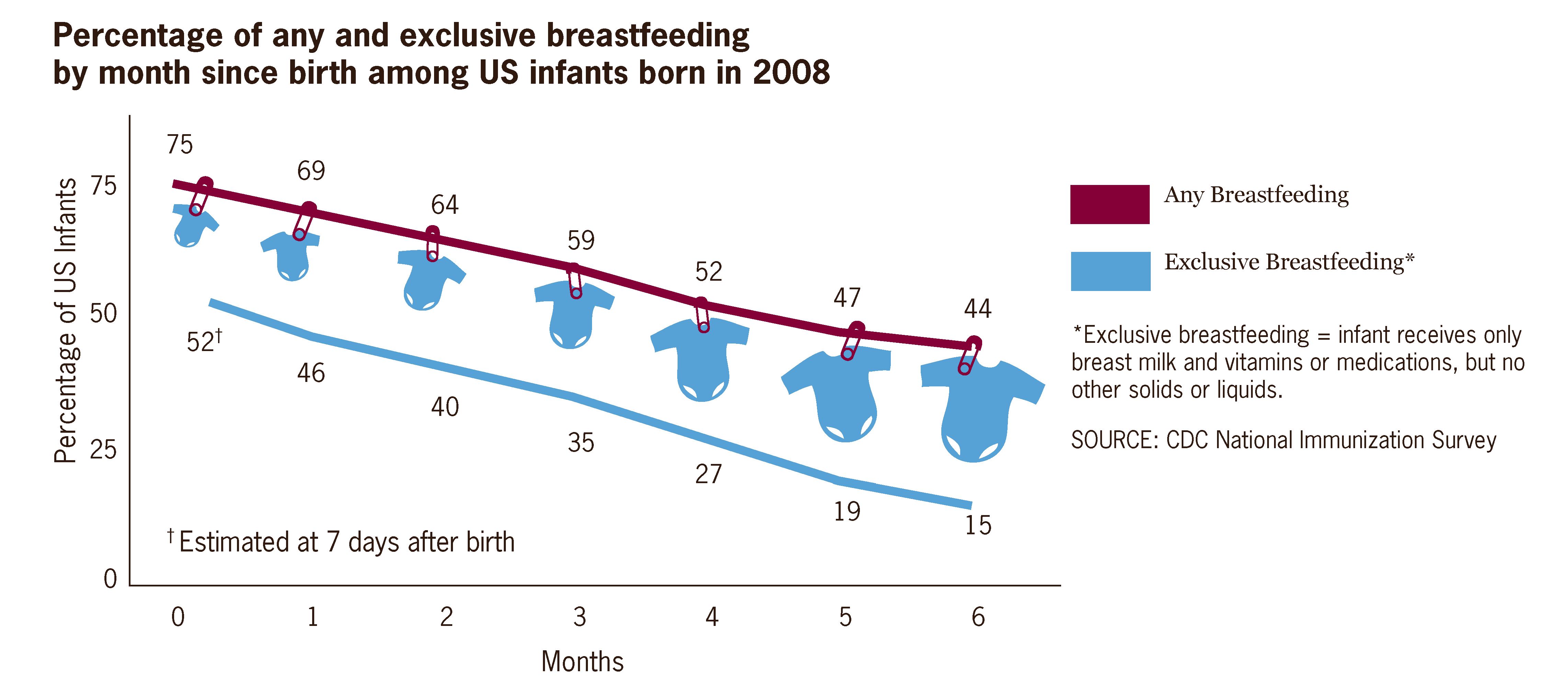 Percentage of any and exclusive breastfeeding months since birth among US infants born in 2008